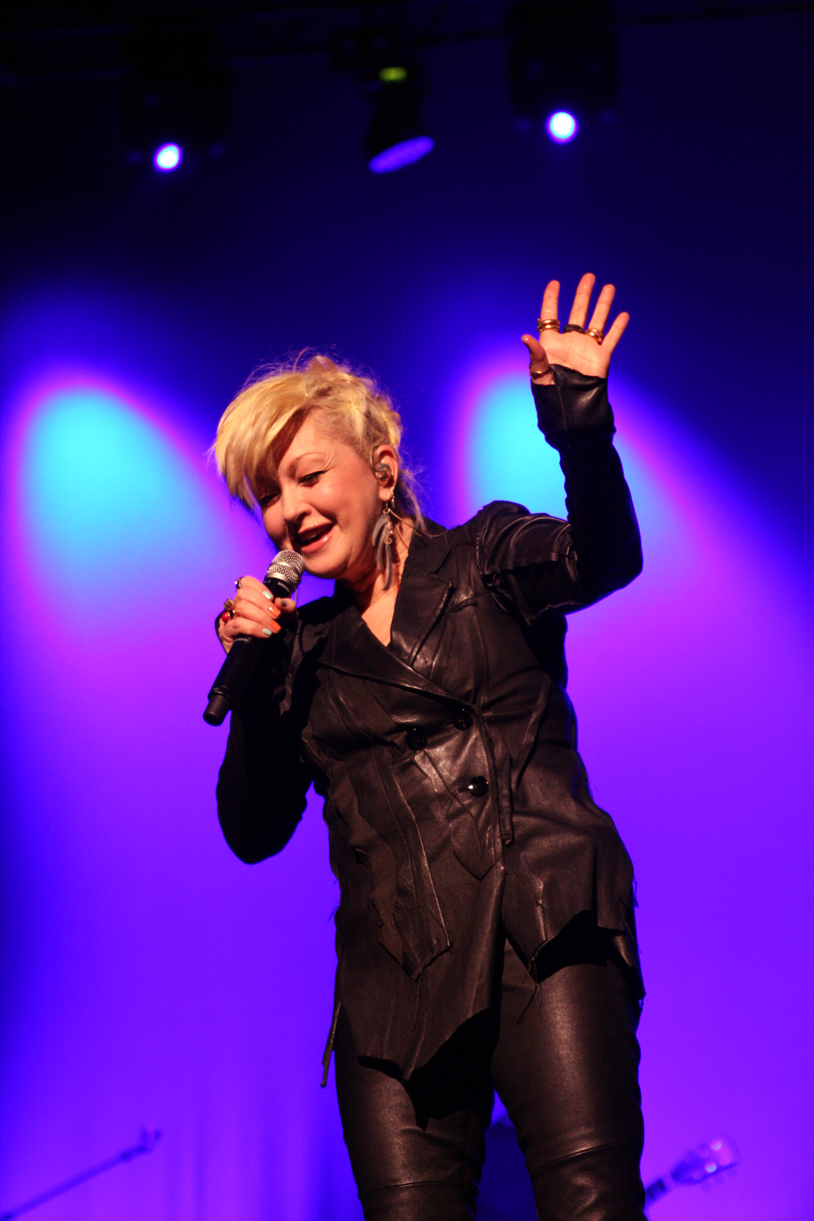 Cyndi Lauper Sydney State Theatre